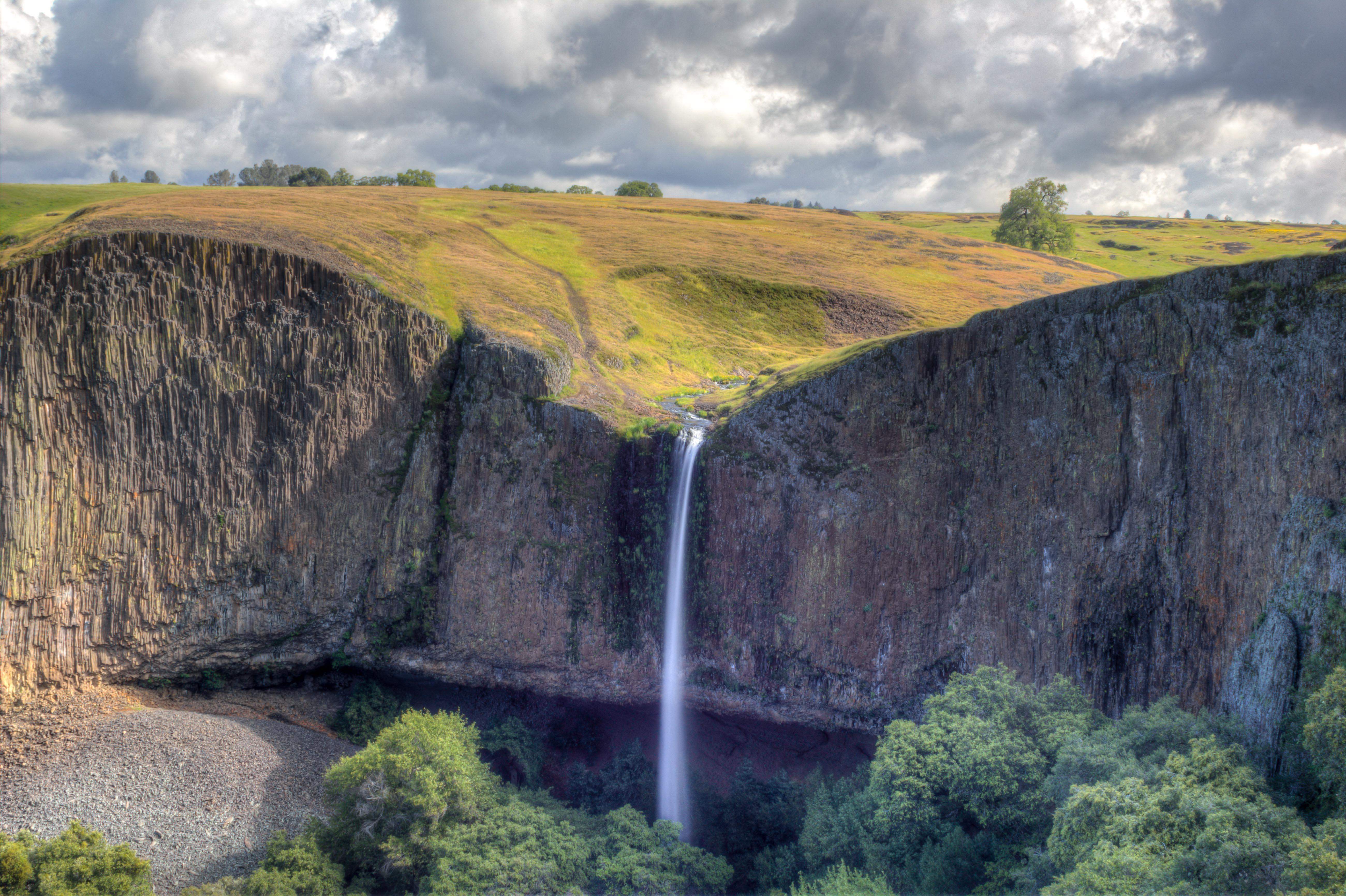 Phantom Falls after a Spring rain. Photo Taken April 2017.